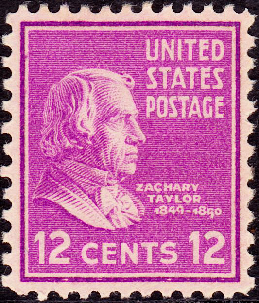 US Postage Stamp: Zachary Taylor, Issue of 1938, 12c